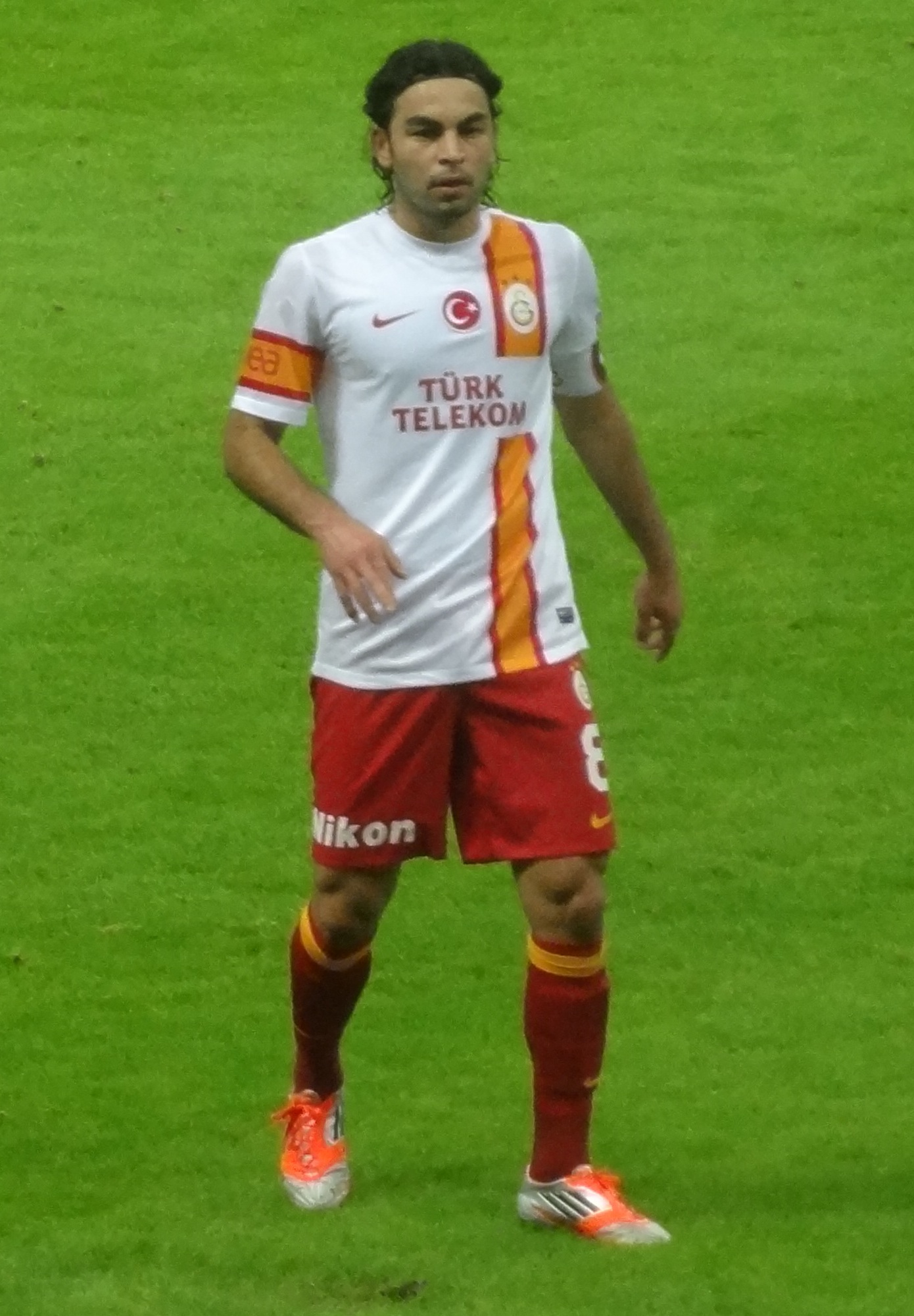 Selçuk İnan @ ES-ES match